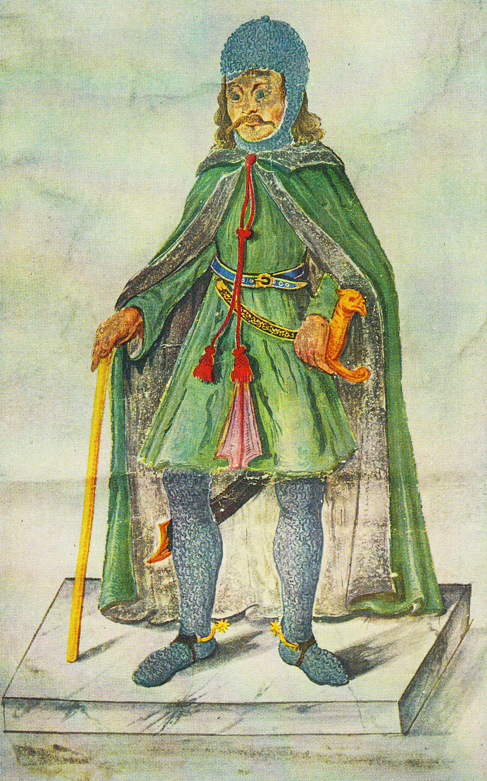 Imaginary depiction of a Norman knight representing "Hugo de Rosel", now believed to be a fictitious personality. 1626 drawing from the pedigree of the family of Russell, Earls & Dukes of Bedford, made in 1626 by Sir William Le Neve (c.1600–1661), York Herald, commissioned by Edward Russell, 3rd Earl of Bedford (1572–1627). Now in the collection of the Duke of Bedford at Woburn Abbey. Photo of 1626 image published as frontispiece of: Scott-Thomson, Gladys, FRHS, Two Centuries of Family History, London, 1930.